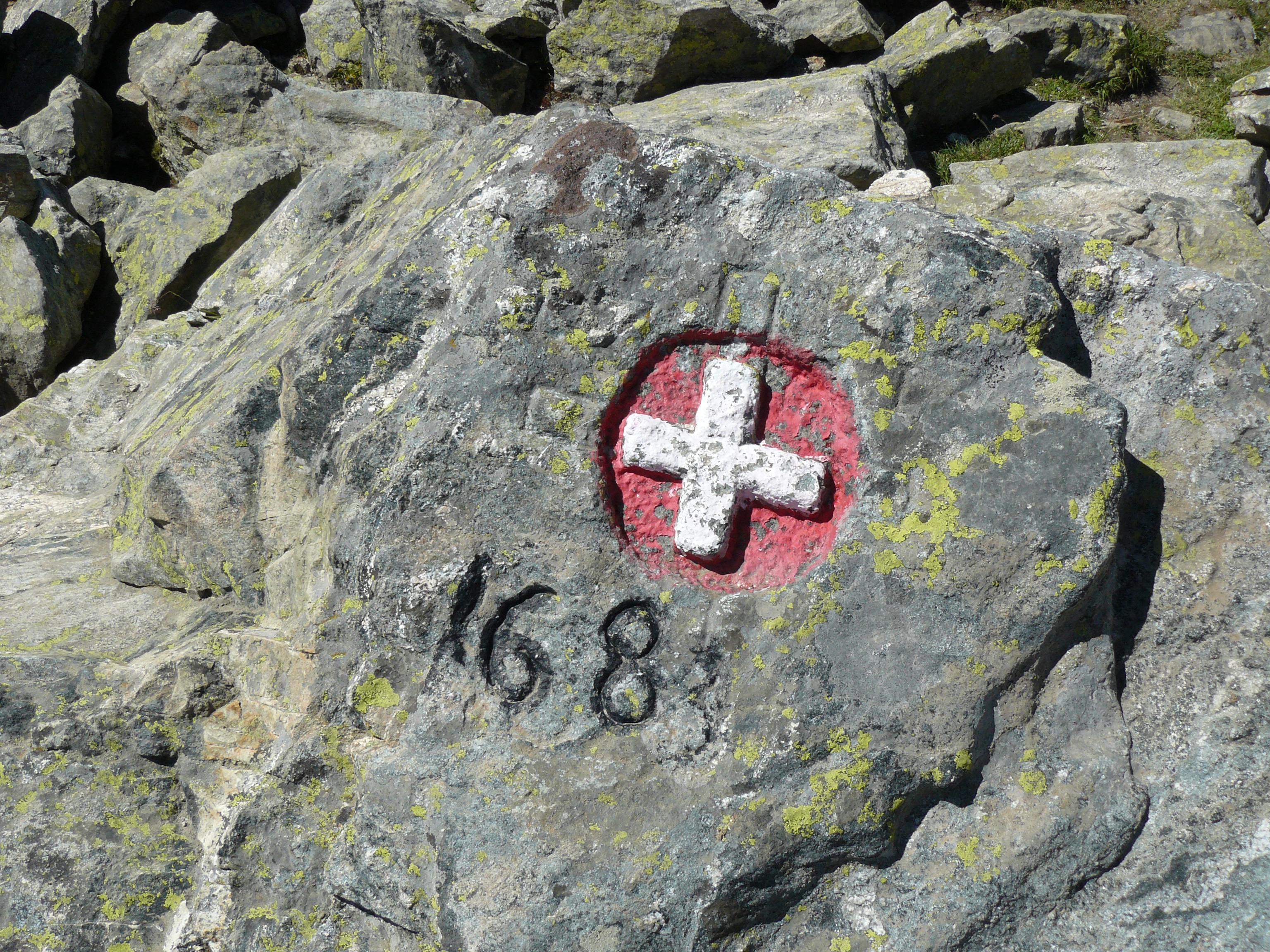 Blason of the old Savoie Duchy located on the col de la Croix beteween Savoie and Isère in France.